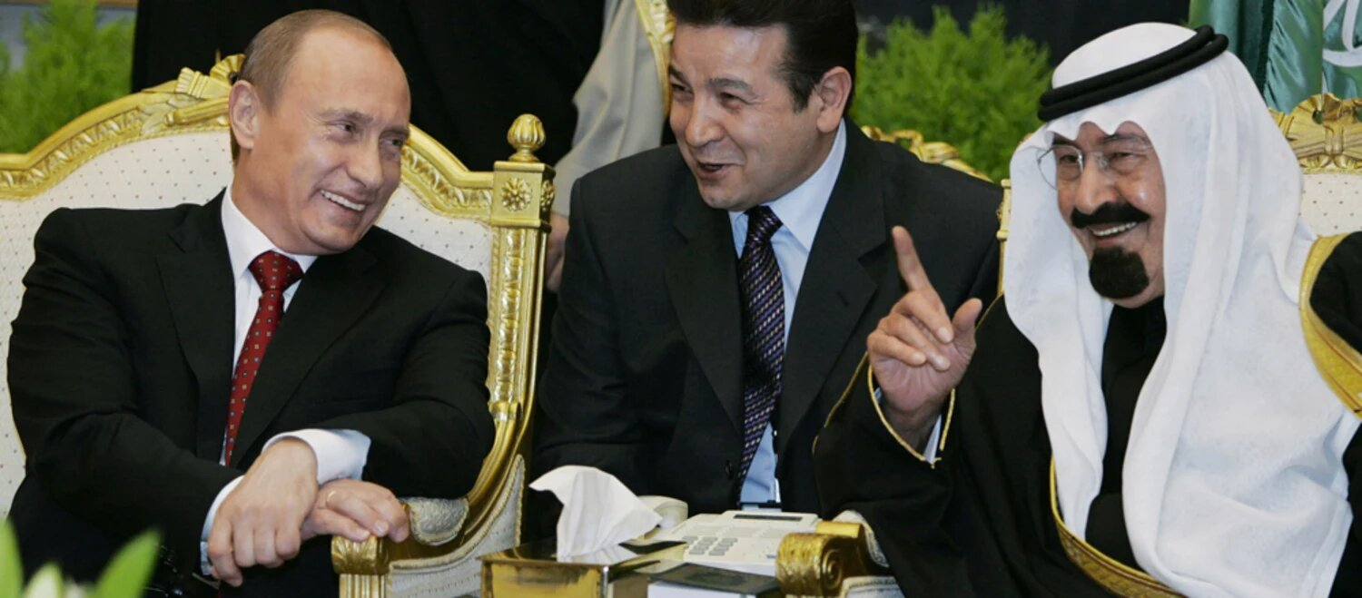 KING KHALID INTERNATIONAL AIRPORT, RIYADH. At an official welcome ceremony with King Abdullah bin Abdul Aziz Al Saud.